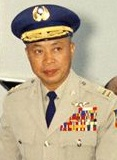 General Lai Ming-Tang